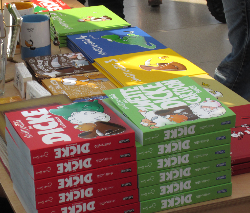 That is the NICHTLUSTIG comic series